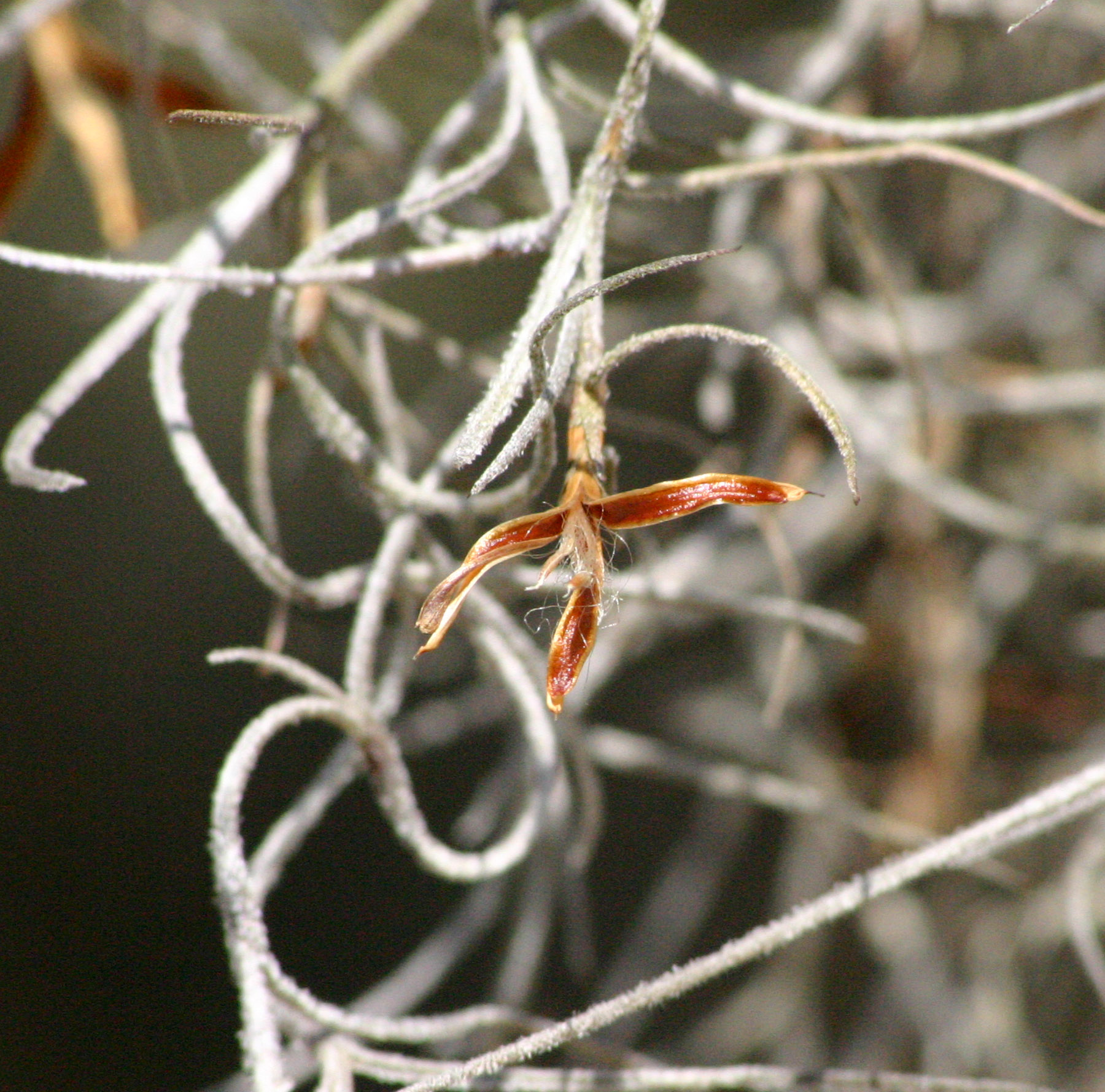 Spanish moss flower in Santee Wildlife Refuge, South Carolina - but it is not a Flower it is an open Fruit. User:BotBln Image copyleft: Image taken by me, released under GFDL, Pollinator 03:54, 4 March 2006 (UTC)